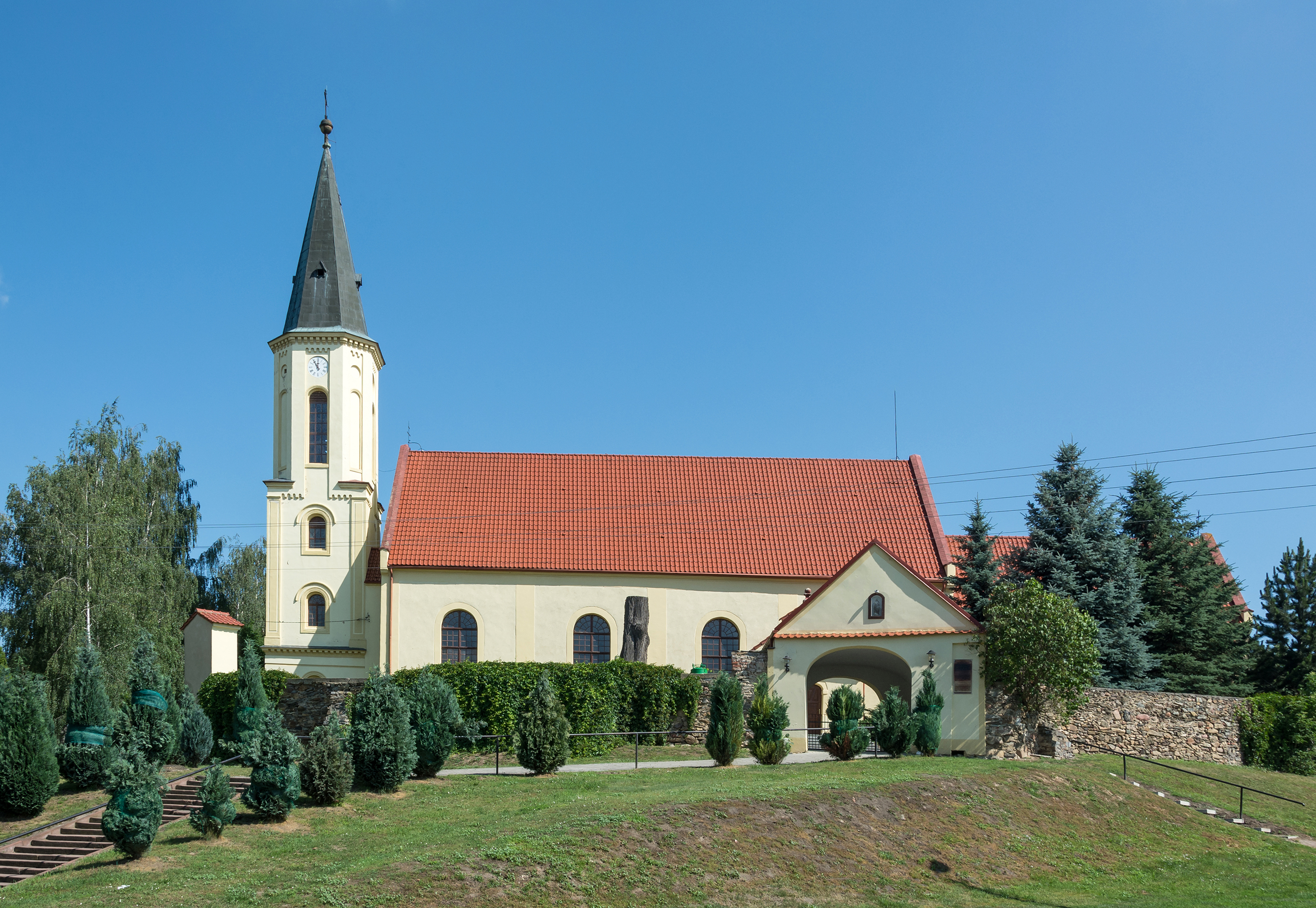 Saint John the Evangelist church in Niedźwiednik